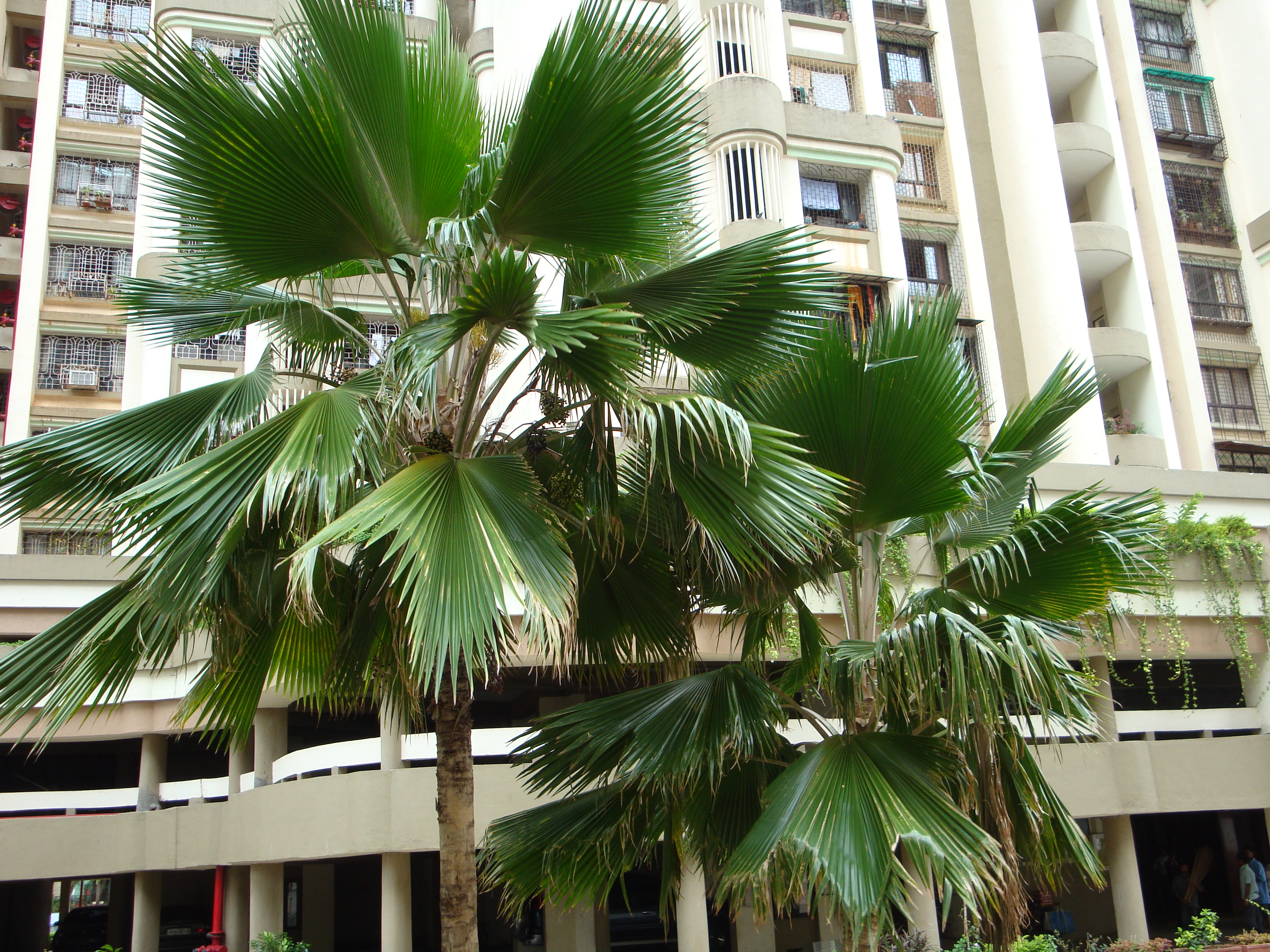 A pair of Pritchardia pacifica specimens in Mumbai, India